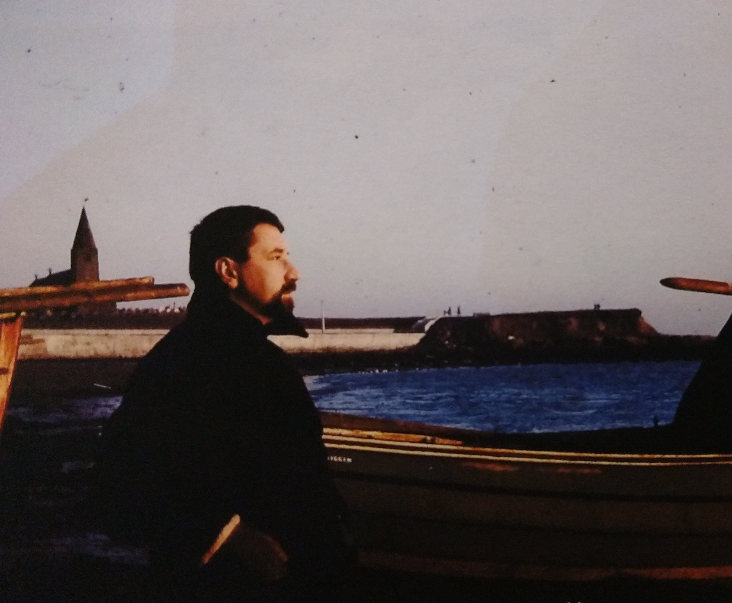 David Mercer circa 1963